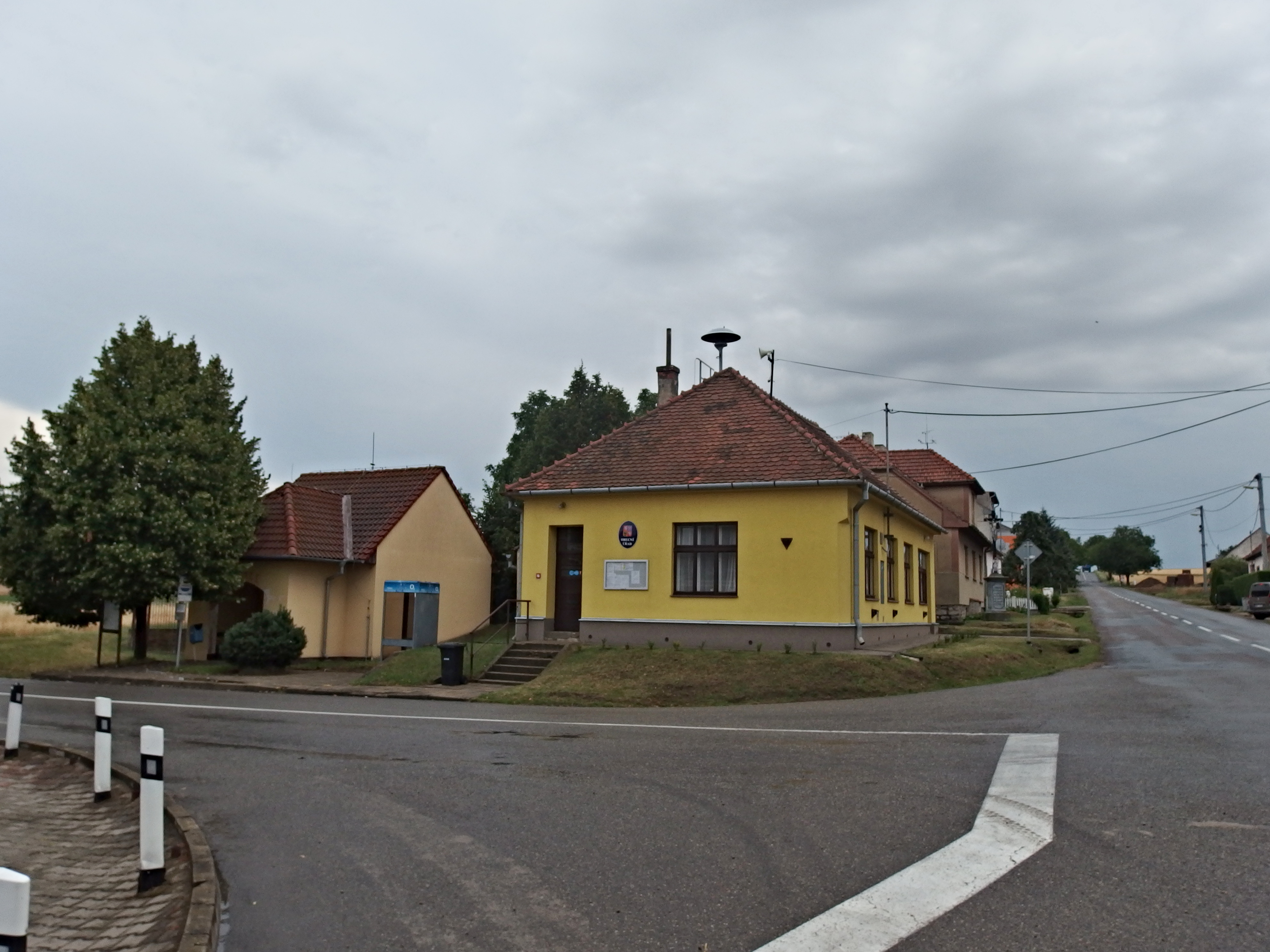 Dobelice, Znojmo District, Czech Republic.